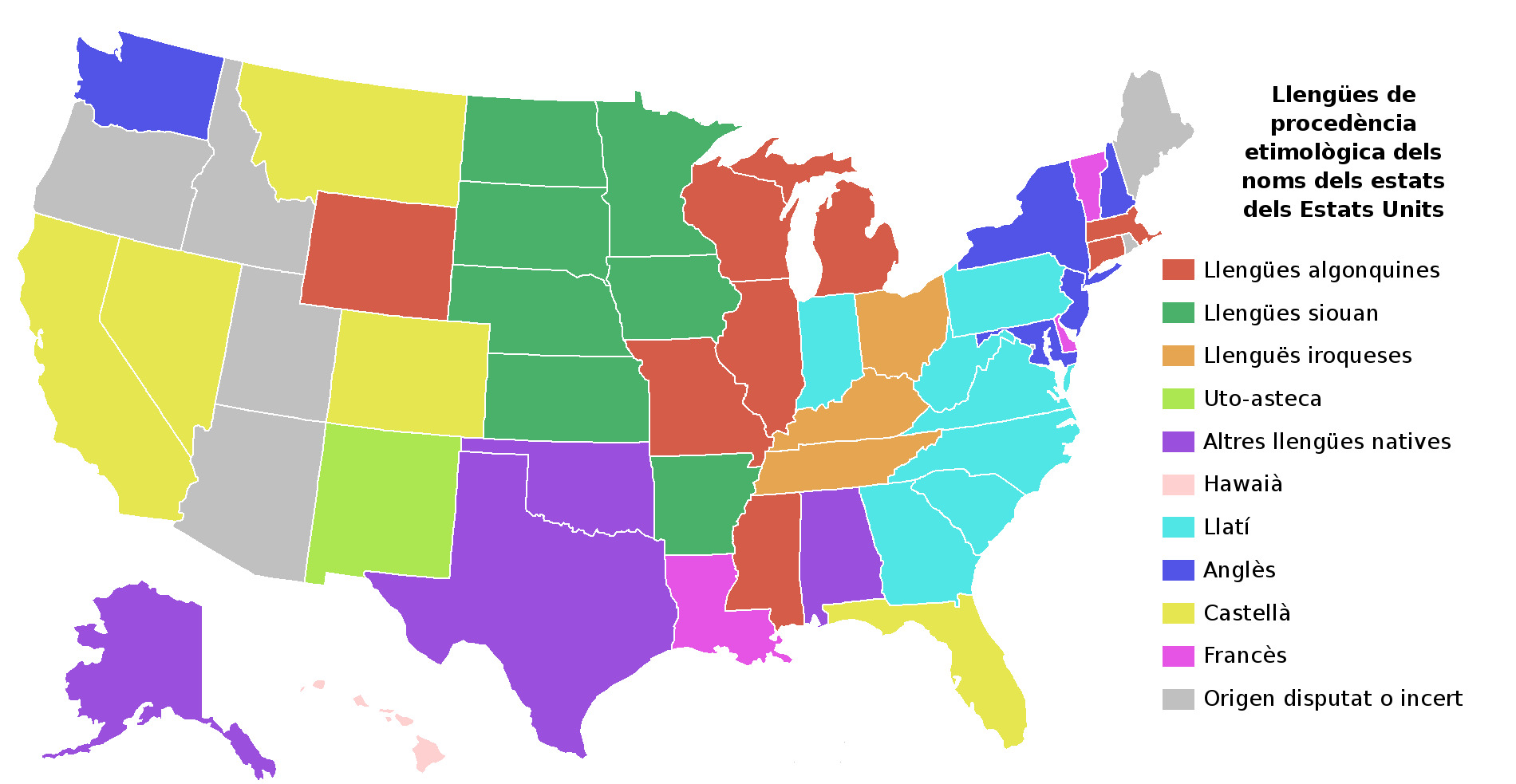 Map showing the source languages of the names of US states (see List of U.S. state name etymologies). Based on BlankMap-USA-states.PNG.